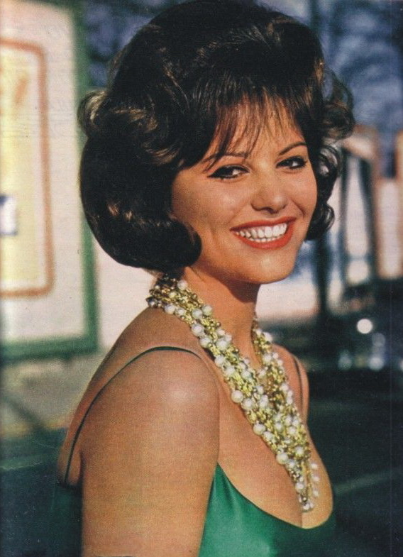 Italian actress Claudia Cardinale